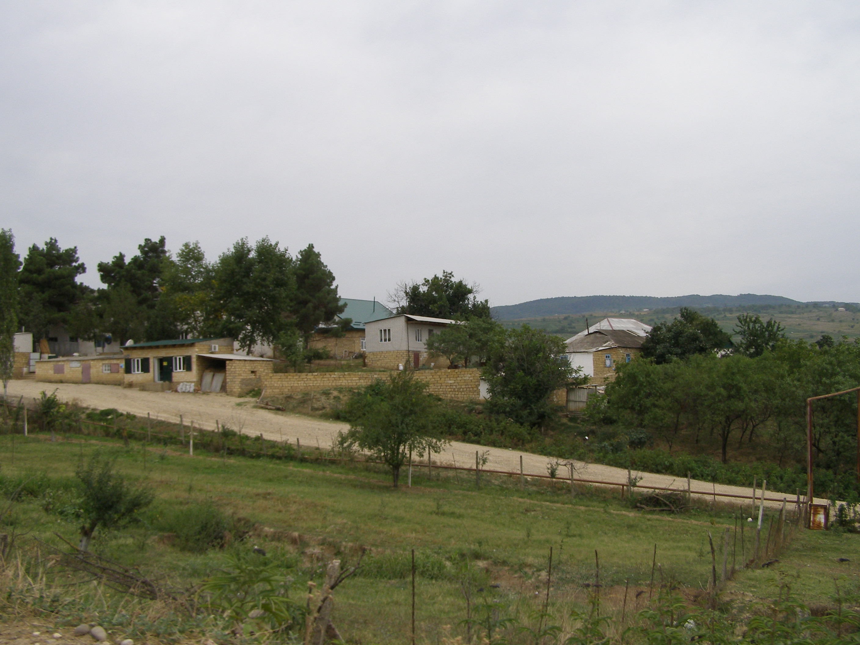 Village Darvag, Tabasaransky District, Dagestan republic, Russia